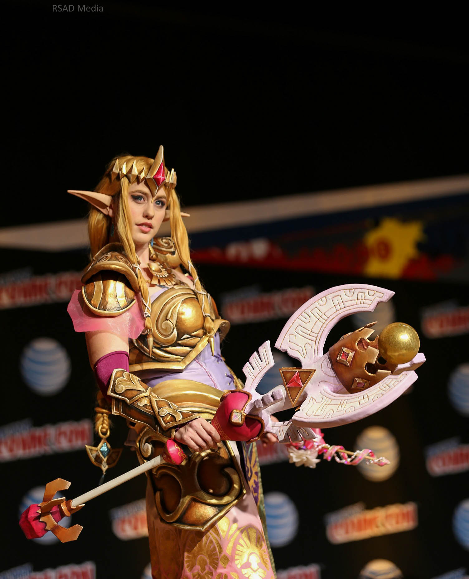 New York Comic Con 2015 - Zelda Cosplay at the 2015 New York Comic Con (NYCC 2015).